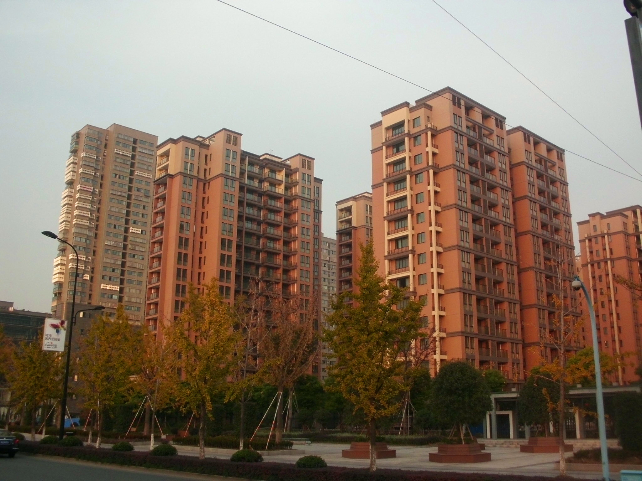 Hangzhou Economic and Technological Development Area